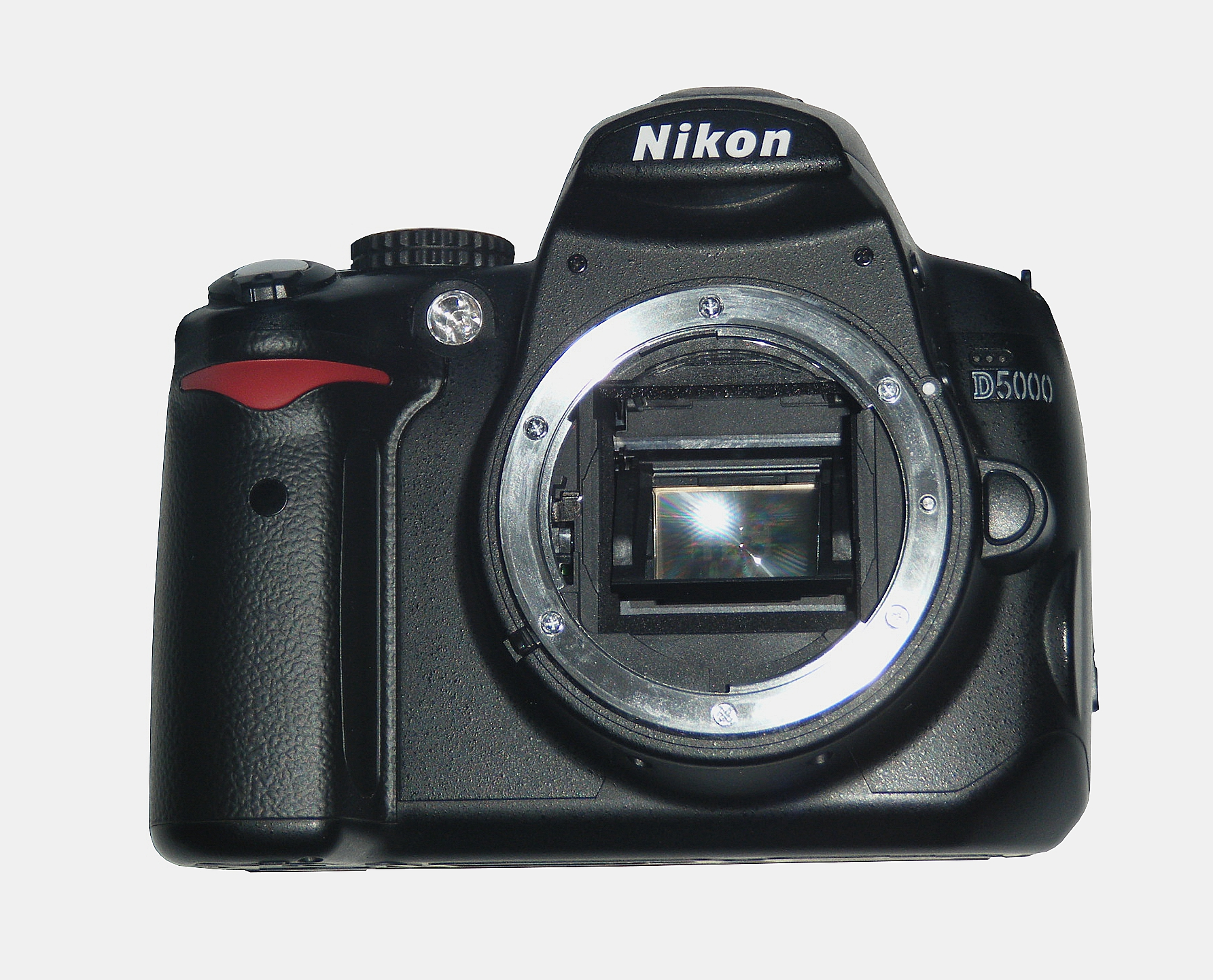 A Nikon D5000 body. Studio shot, so geocoding is not available.